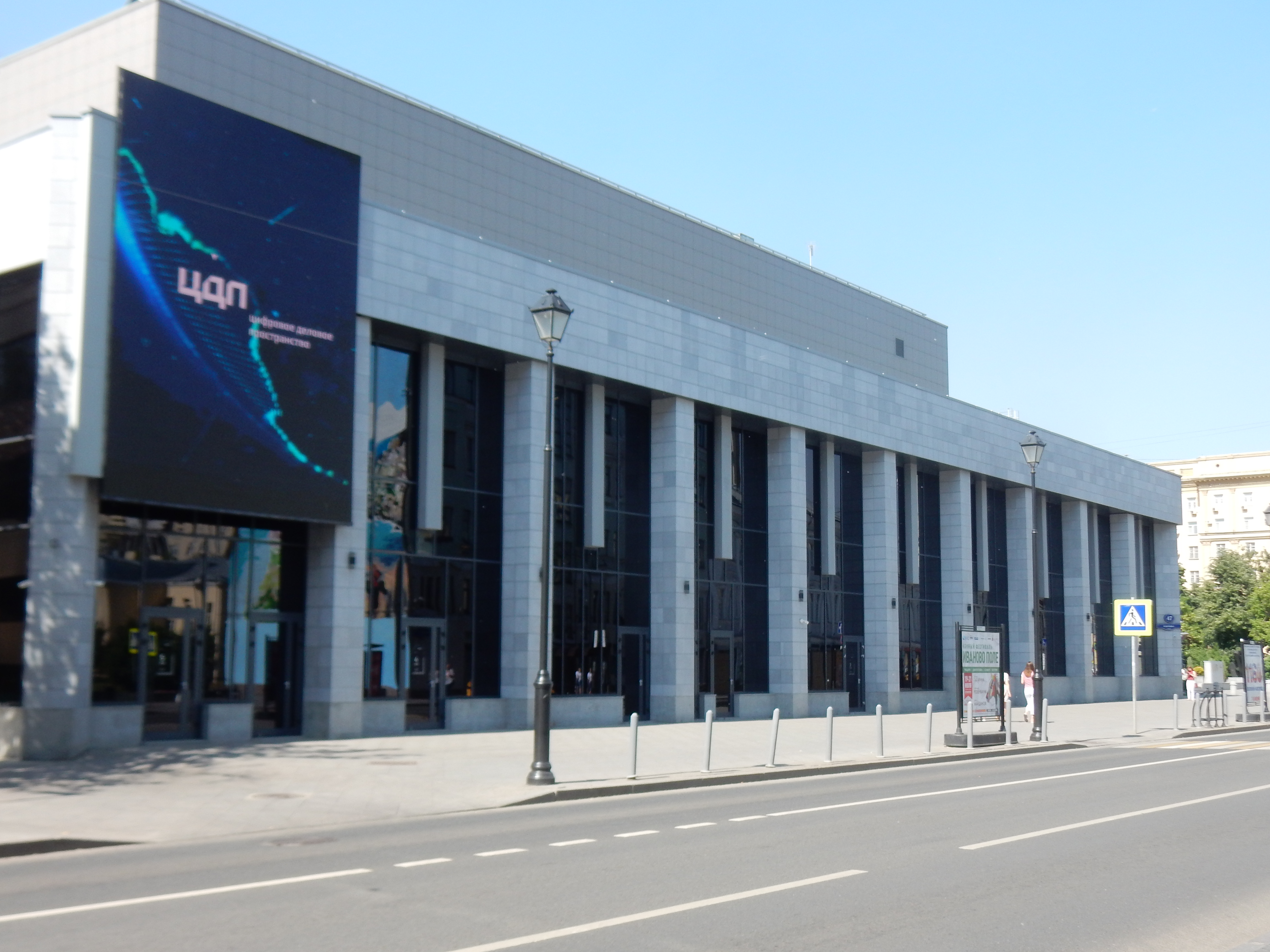 Moscow, Pokrovka 47. June 2019